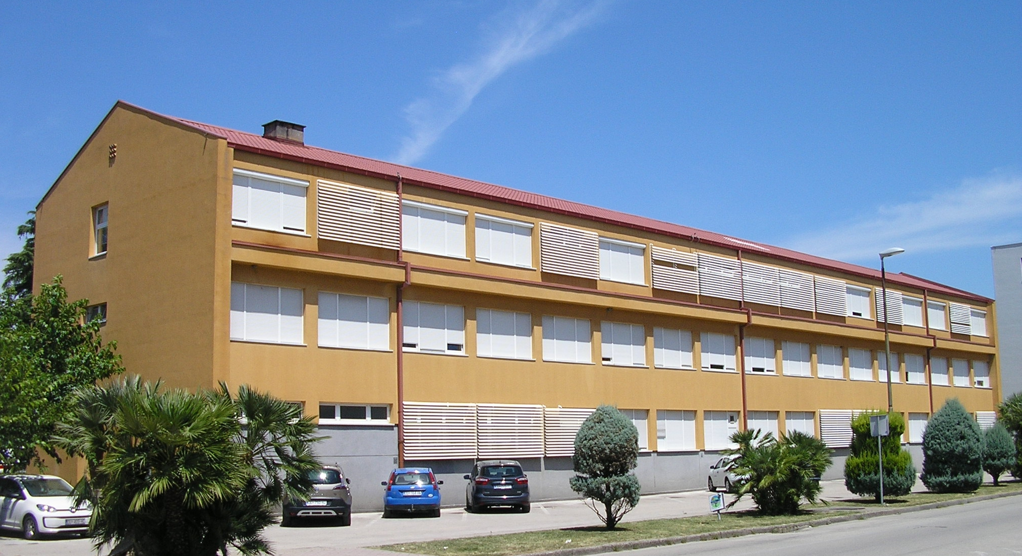 Health center in Metković, Croatia